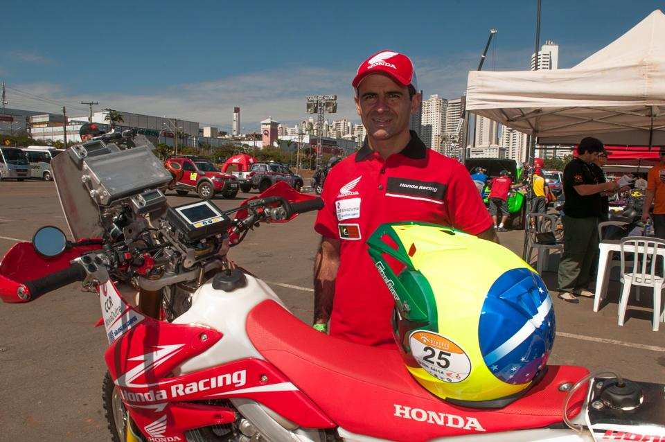 Jean Azevedo